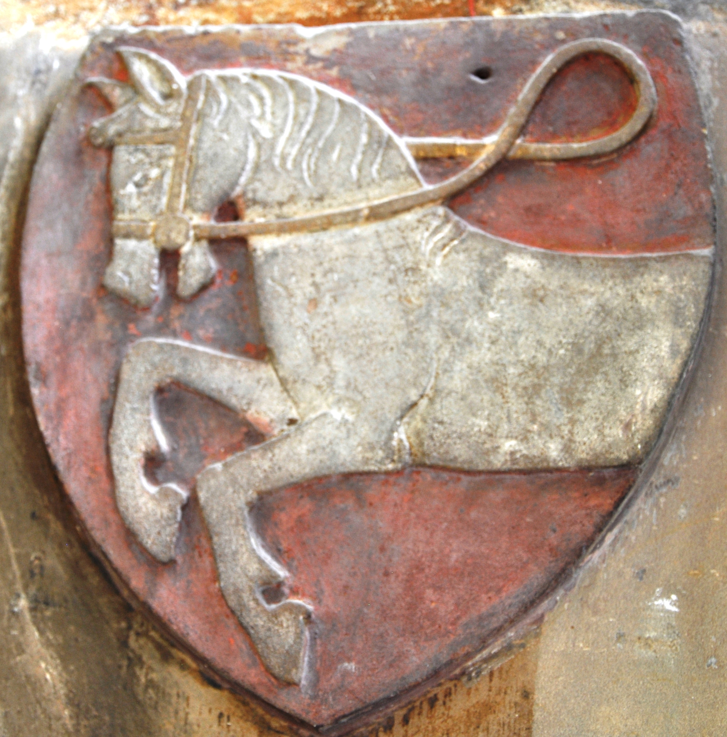 Coat of arms of the lords of Pardubice (of Arnošt z Pardubic, the first Archbishop of Prague)